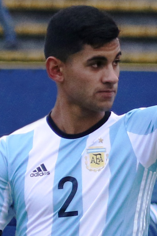 Quito, 2 de febrero del 2017 (Andes).- La escuadra argentina necesitaba ante Colombia un buen resultado para sacudirse del 0-3 recibido en la primera fecha frente a Uruguay y lo consiguió con goles en el minuto uno y el 92, con los que venció 2-1 a Colombia en la segunda fecha del Sudamericano Sub 20 Ecuador 2017. ANDES/Micaela Ayala V. This file comes from the Flickr stream of the Public News Agency of Ecuador and South America and is copyrighted.This file is verified as being licenced under an appropriate Creative Commons licence.In short: you are free to modify the file as long as you attribute Photographer name/Andes and distribute it under the same licence. This tag does not indicate the copyright status of the attached work. A normal copyright tag is still required. See Commons:Licensing.